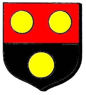 Streatfield (Streatfeild, Streetfield) Coat of Arms